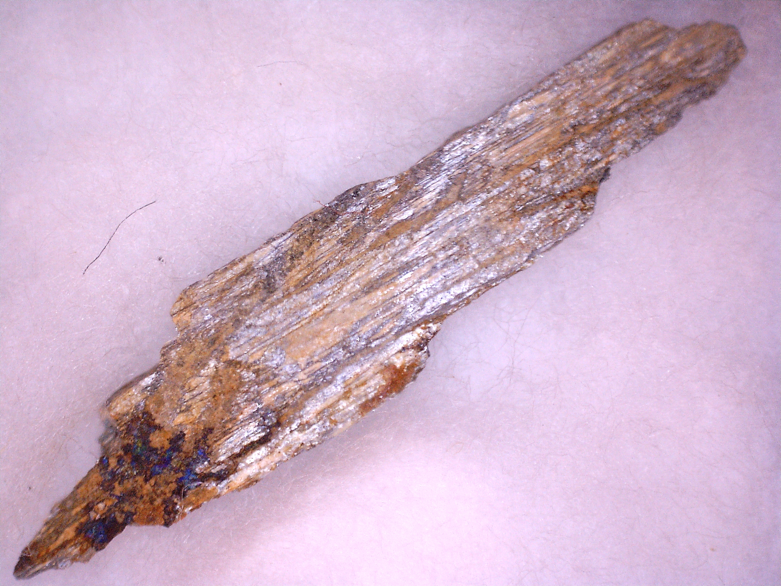 Yellow-orange bismoclite on bismuthinite from the Alto do Giz pegmatite, Equador, Rio Grande do Norte, NE-region, Brazil. Minor oxidation can also be seen on the lower-left corner in this image. Approximate size: 20 x 6 x 2 mm. From my personal collection.